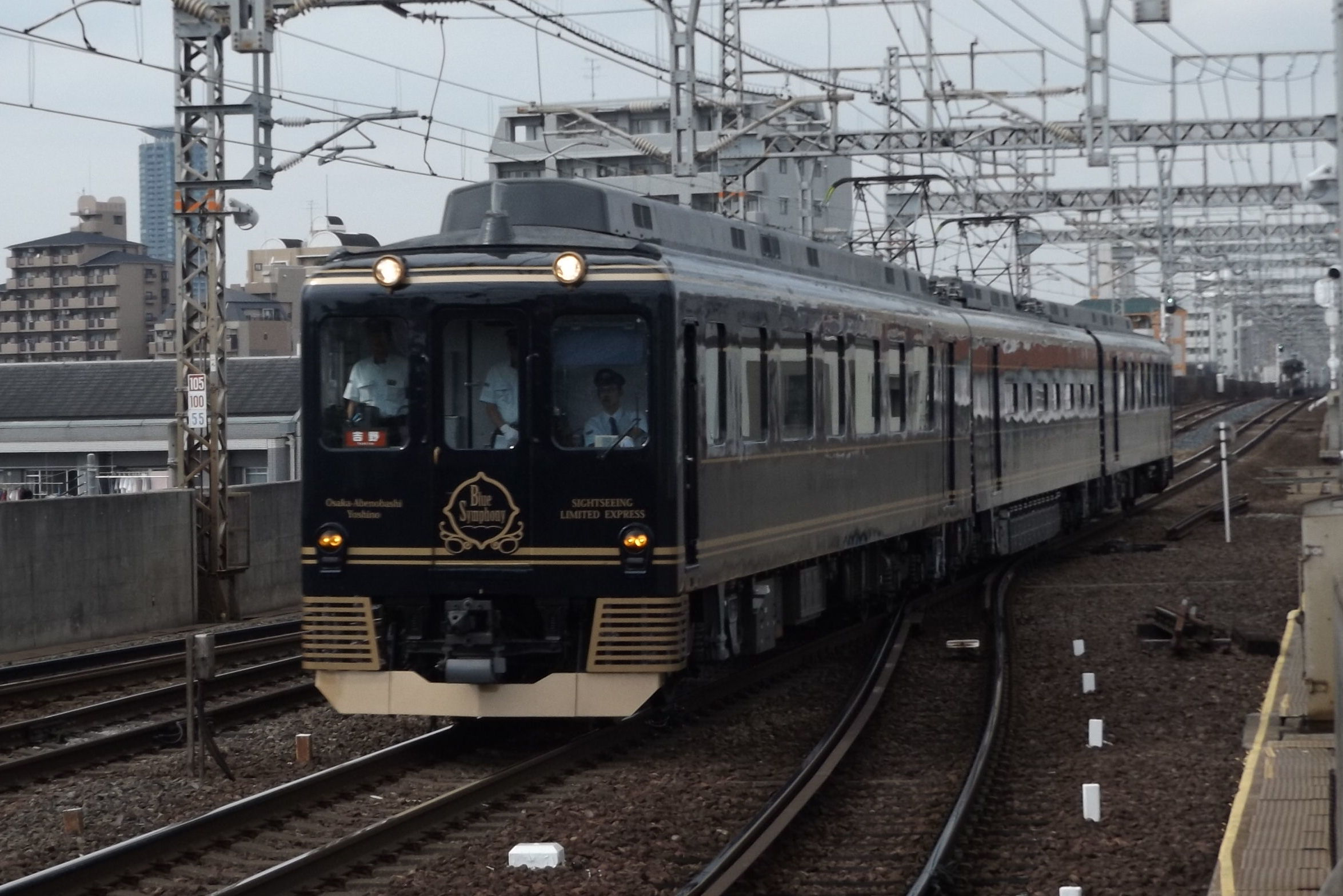 The Kintetsu 16200 series Blue Symphony EMU set approaching Imagawa Station on the Kintetsu Minami-Osaka Line